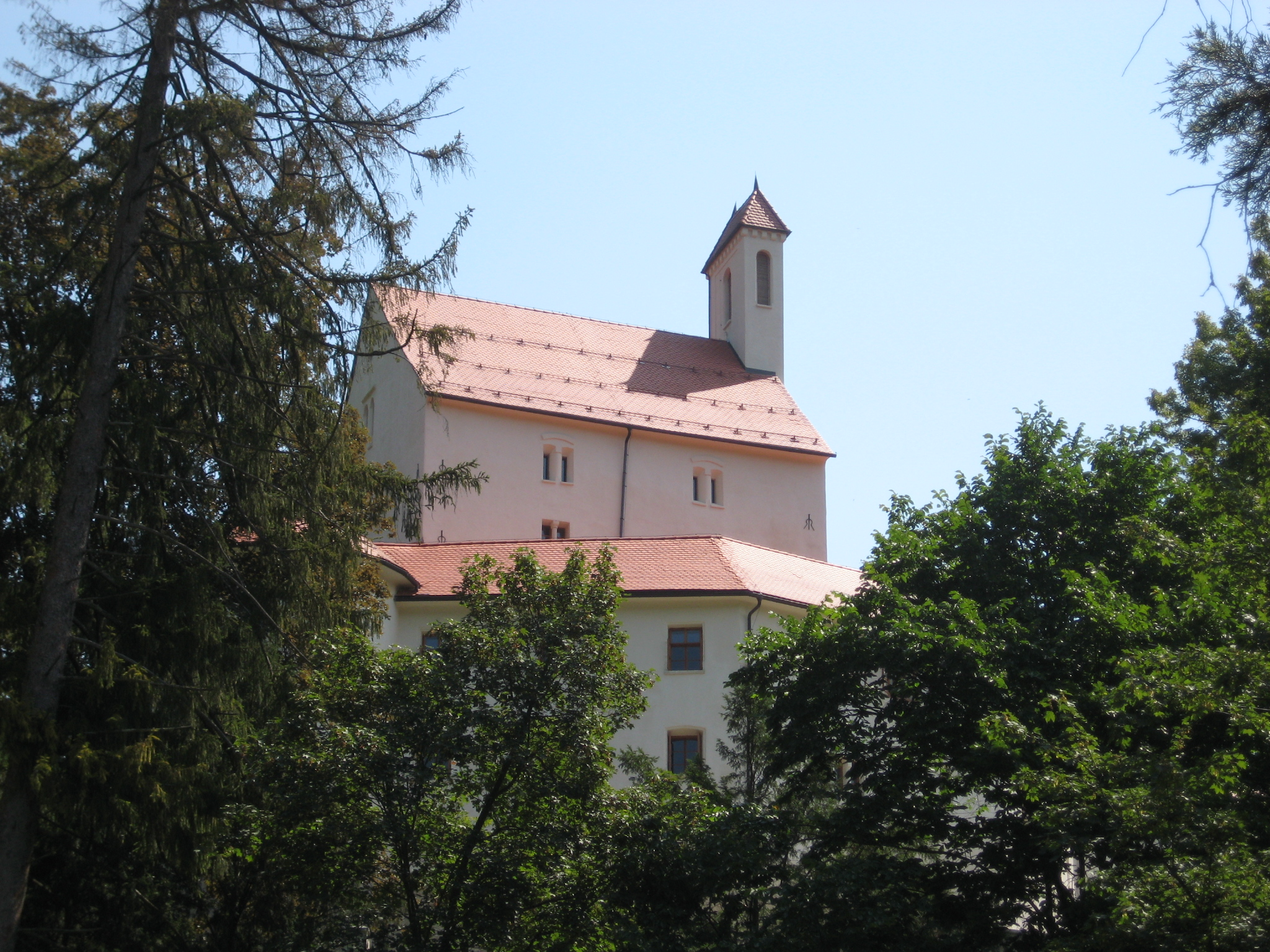 Pišece castle, Slovenia.